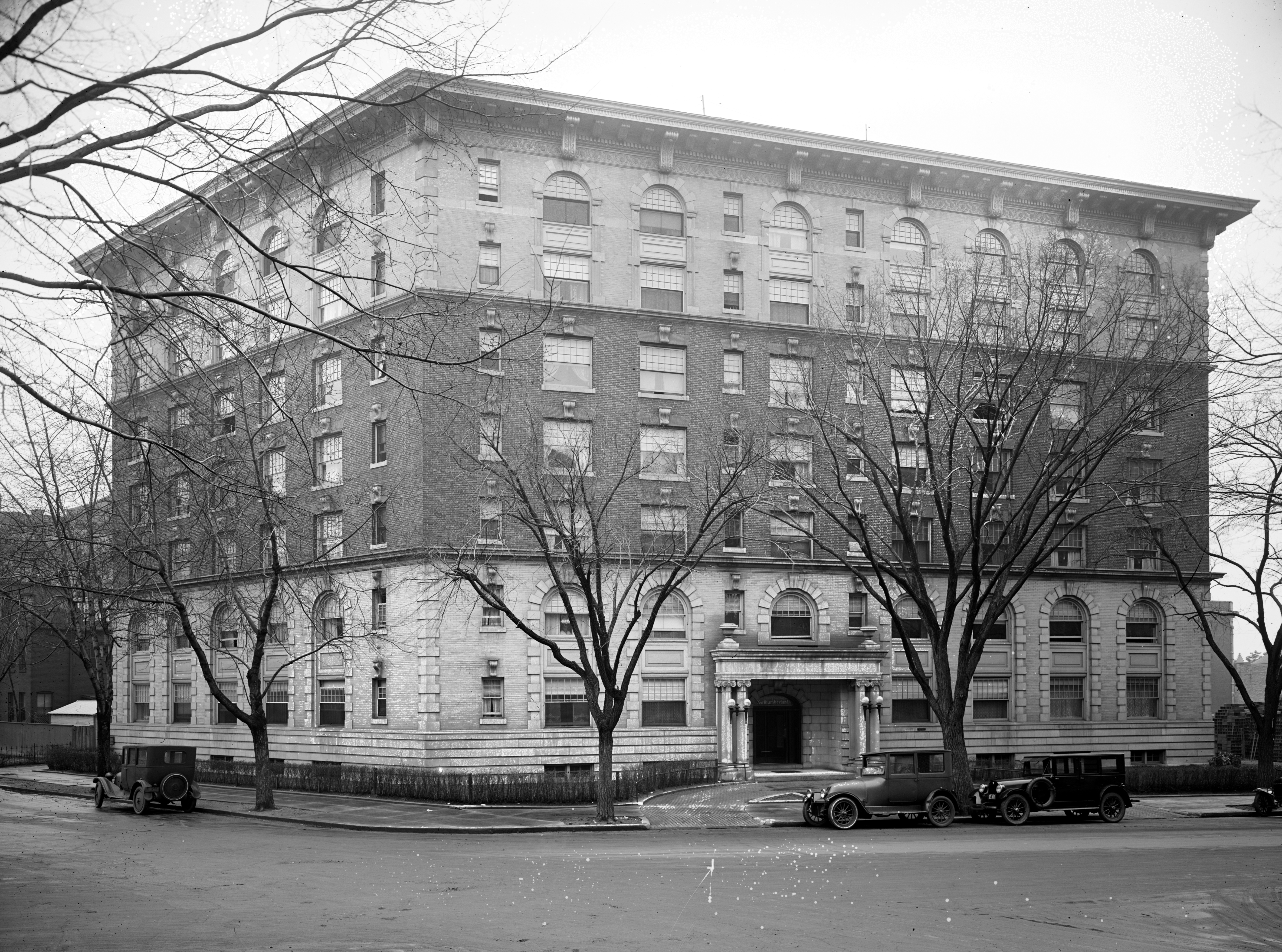 The Northumberland Apartments in Washington, D.C.